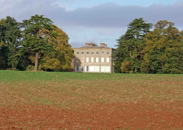 Ombersley Court The estate has been owned by the Sandys family since 1560, when Edwin Sandys was appointed Bishop of Worcester by Queen Elizabeth I. The house was built in the 1720s, replacing an earlier one on the same site. Viewed from near the Wychavon Way. There is a pub in the village of Ombersley called The Crown and Sandys, which has recently re-opened after renovation.